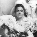 Three sister Princesses, Bamba, Catherine and Sophia - daughters of Daleep Singh